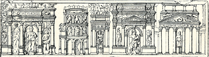 Roman buildings depicted on the Haterii tomb (early second century CE)